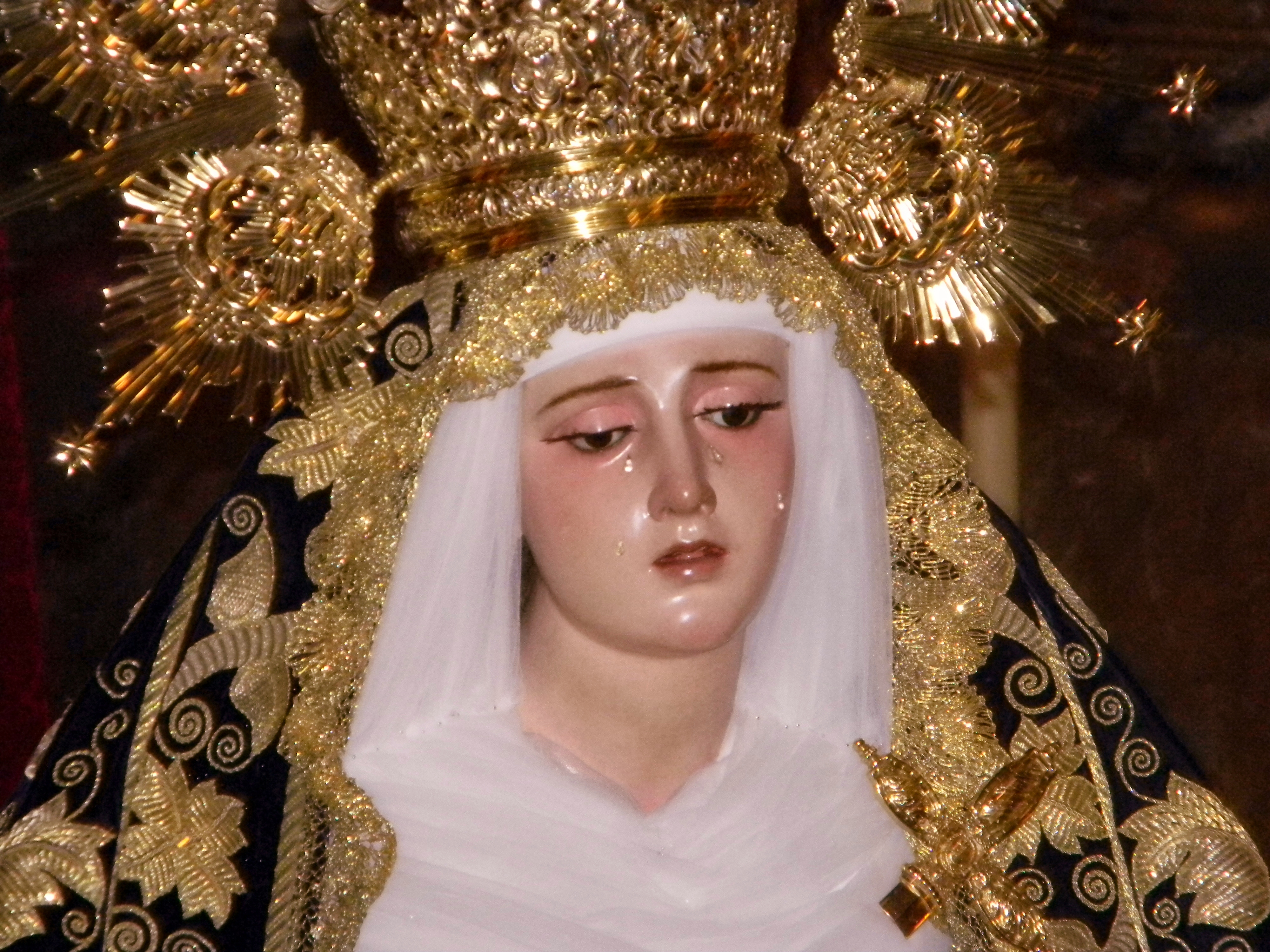 semana santa sevilla